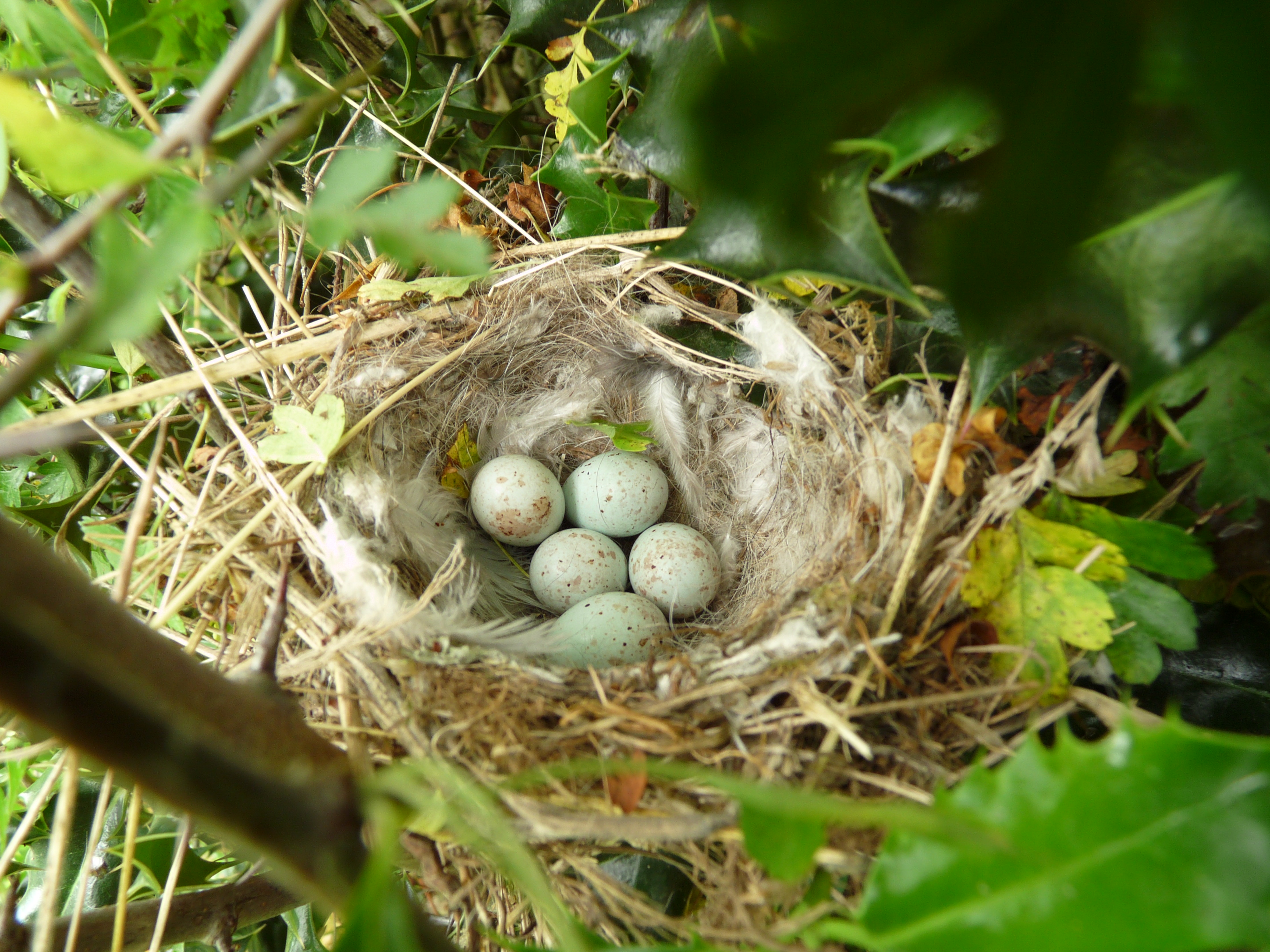 Latin name Carduelis chloris Family Finches (Fringillidae) Overview Nesting in a garden conifer, or feasting on black sunflower seeds, it is a... Where to see them ... When to see them All year round What they eat Seeds and insects